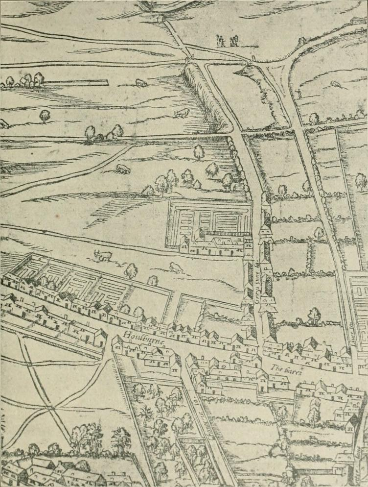 Part of a map of London by Ralph Agas drawn in 1591 showing Gray's Inn